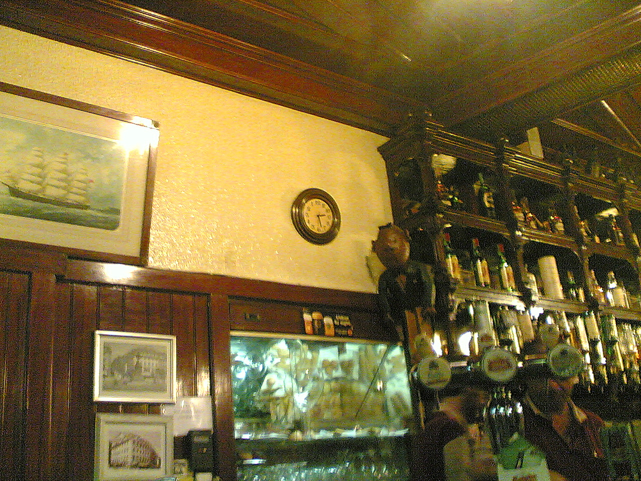 The counter-clockwise clock, in a pub in Lisbon